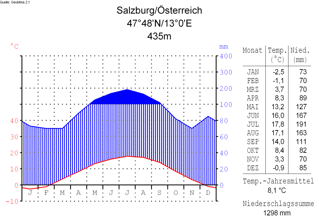 climate chart in the format by Walter and Lieth, metric, °Celsisus and millimeters, made with Geoklima 2.1